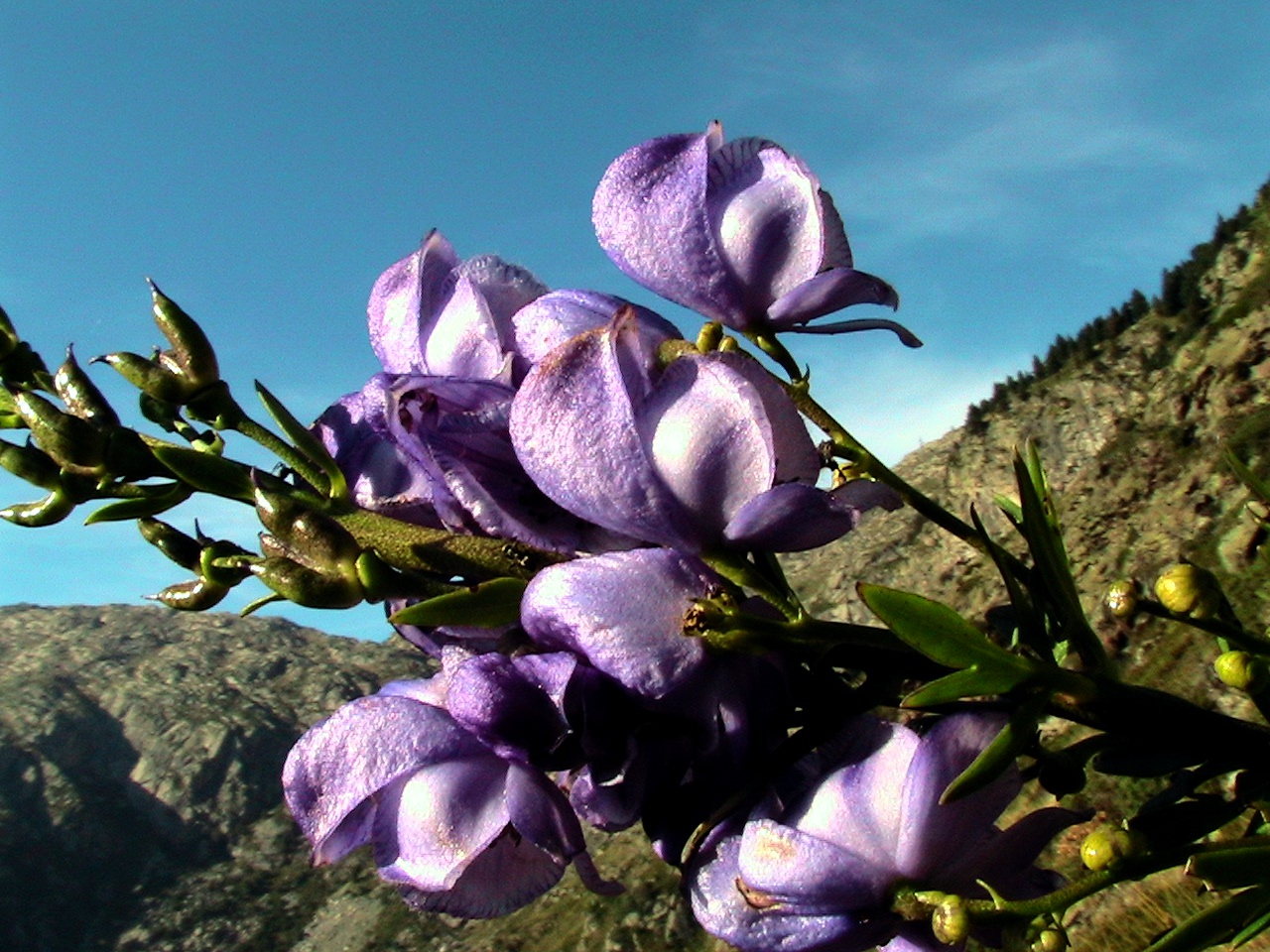 Aconitum napellus. In Canal de Pigolo (Cabdella - Pallars Jussà - Catalunya), at 1,850 m. altitude